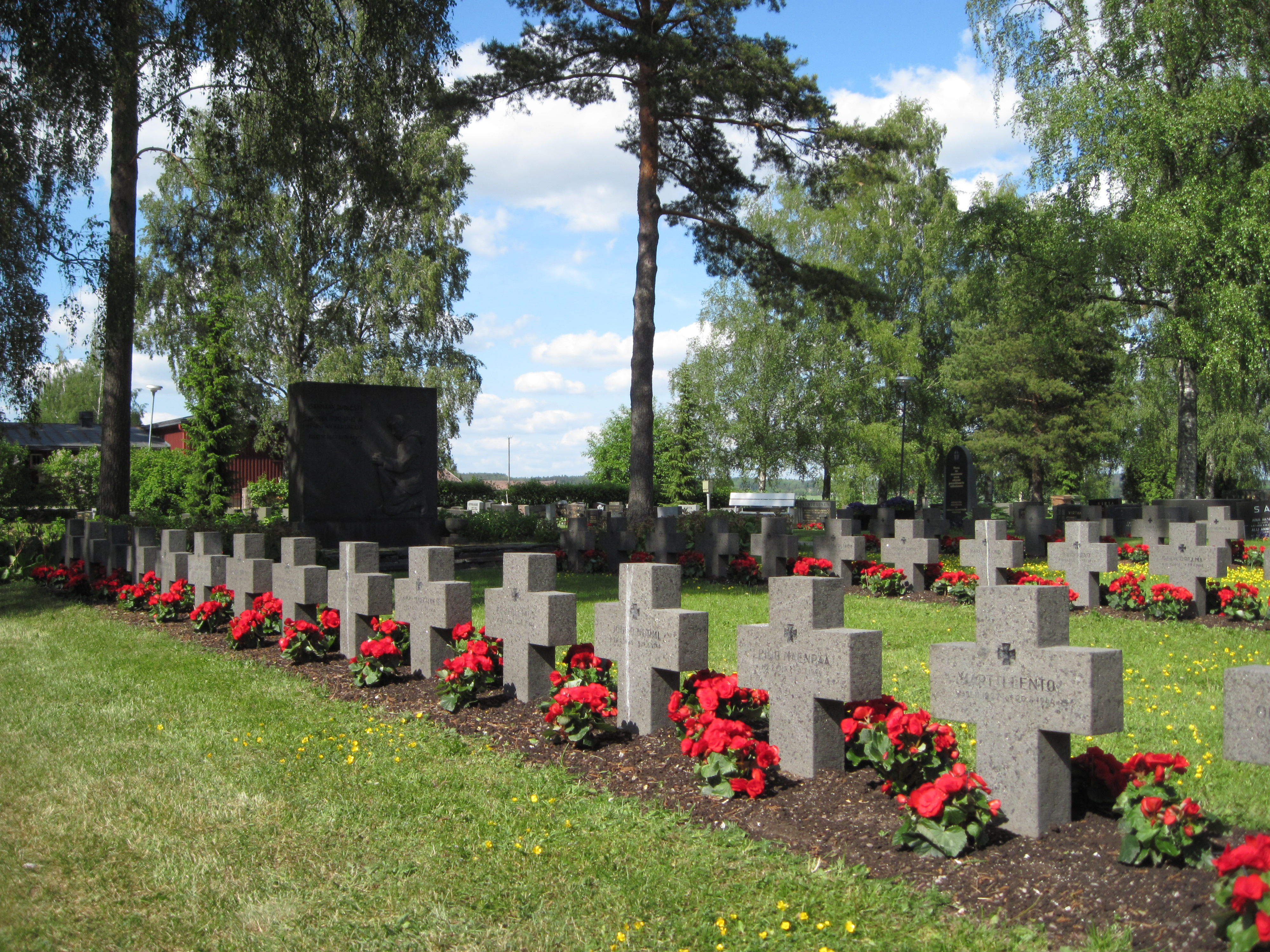 Military cemetary at church in Pertteli, Finland